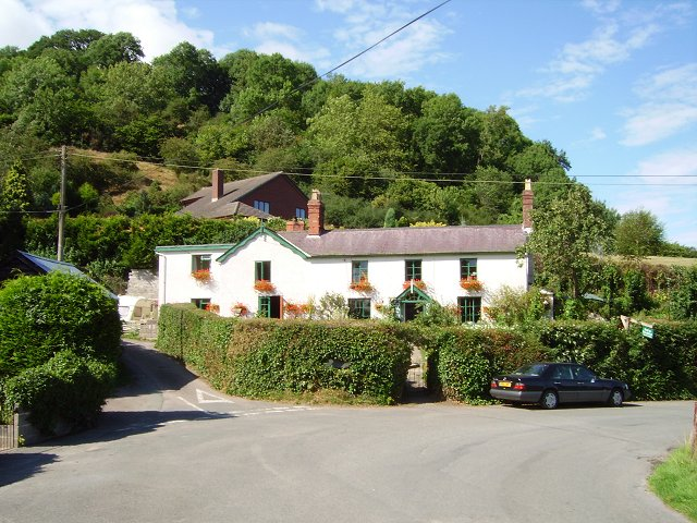 Cnwclas. Usually spelt in the English fashion - Knucklas, this small village is the proud possessor of a working railway station. It is also bypassed now, with the long road bend being cut off in the 1970's. Beyond the house the woods hide the site of a Norman Castle.